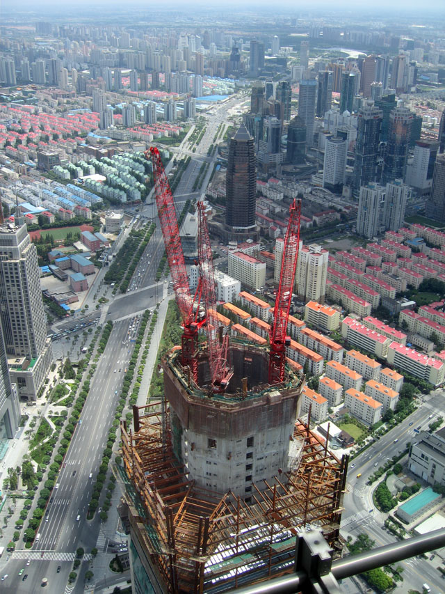 Shanghai World Financial during construction